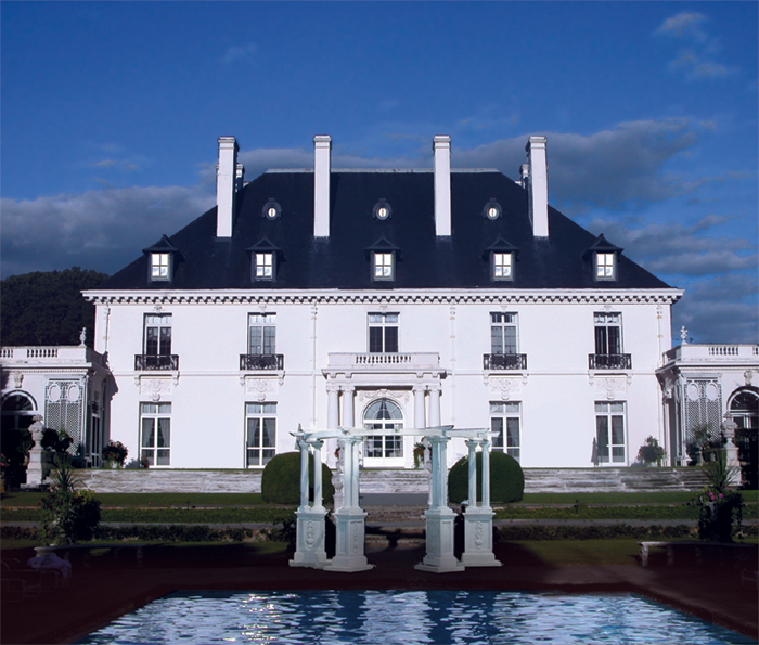 Photo of the Western Facade of Vernon Court, 492 Bellevue Avenue, Newport RI